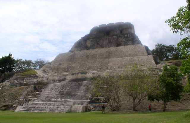 Main temple in Xunantunich, a maya site in Belize